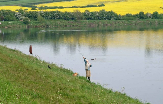 Gone Fishing 26 degrees this afternoon at Thrybergh Country Park.